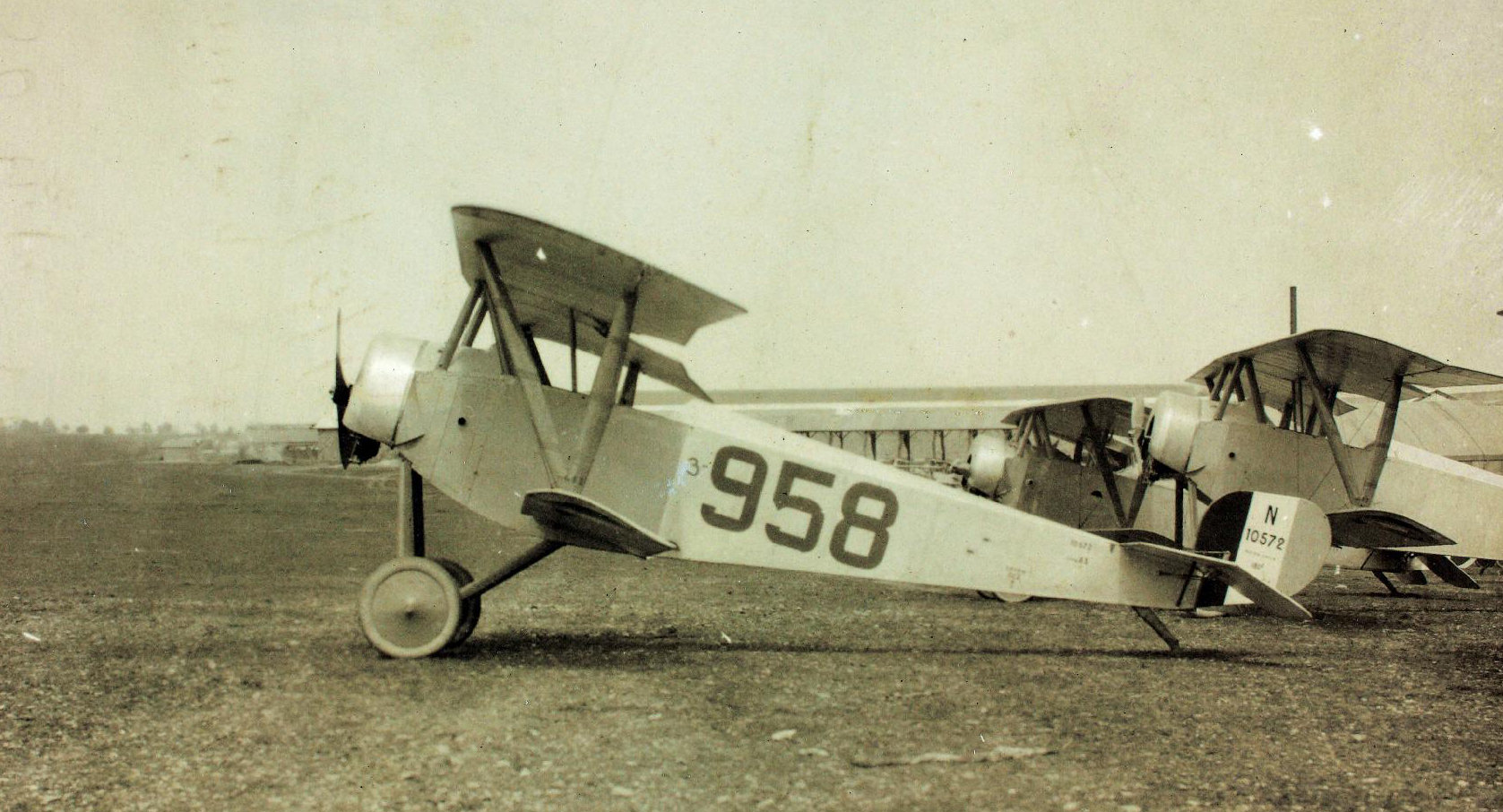 Nieuport 83 E.2 trainer in USAS service in France. The Nieuport 83 was a variant of the Nieuport 10 built specifically as a trainer.